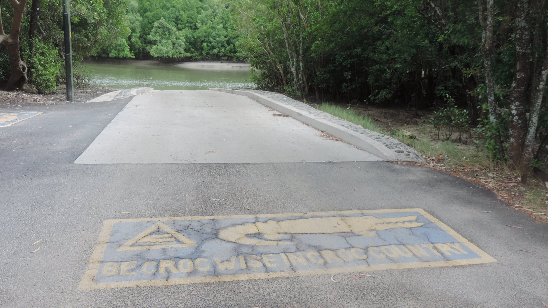 Crocodile warning, boat ramp at Richters Creek, Holloways Beach, 2018